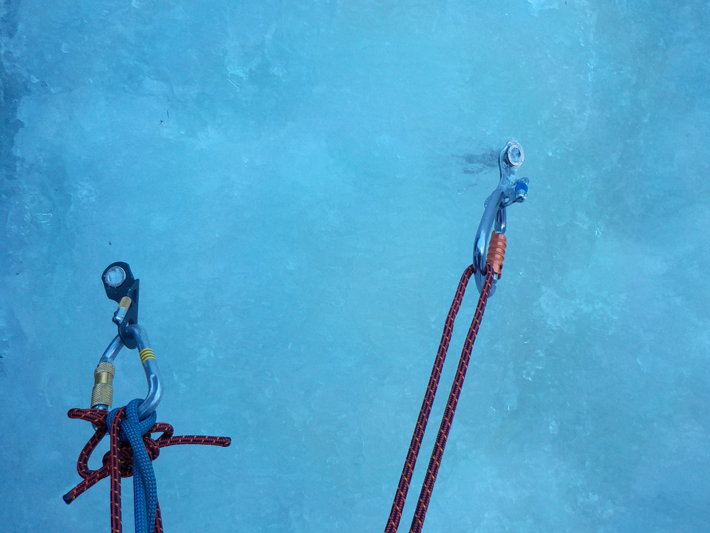 A typical ice climbing anchor, with two ice screws.